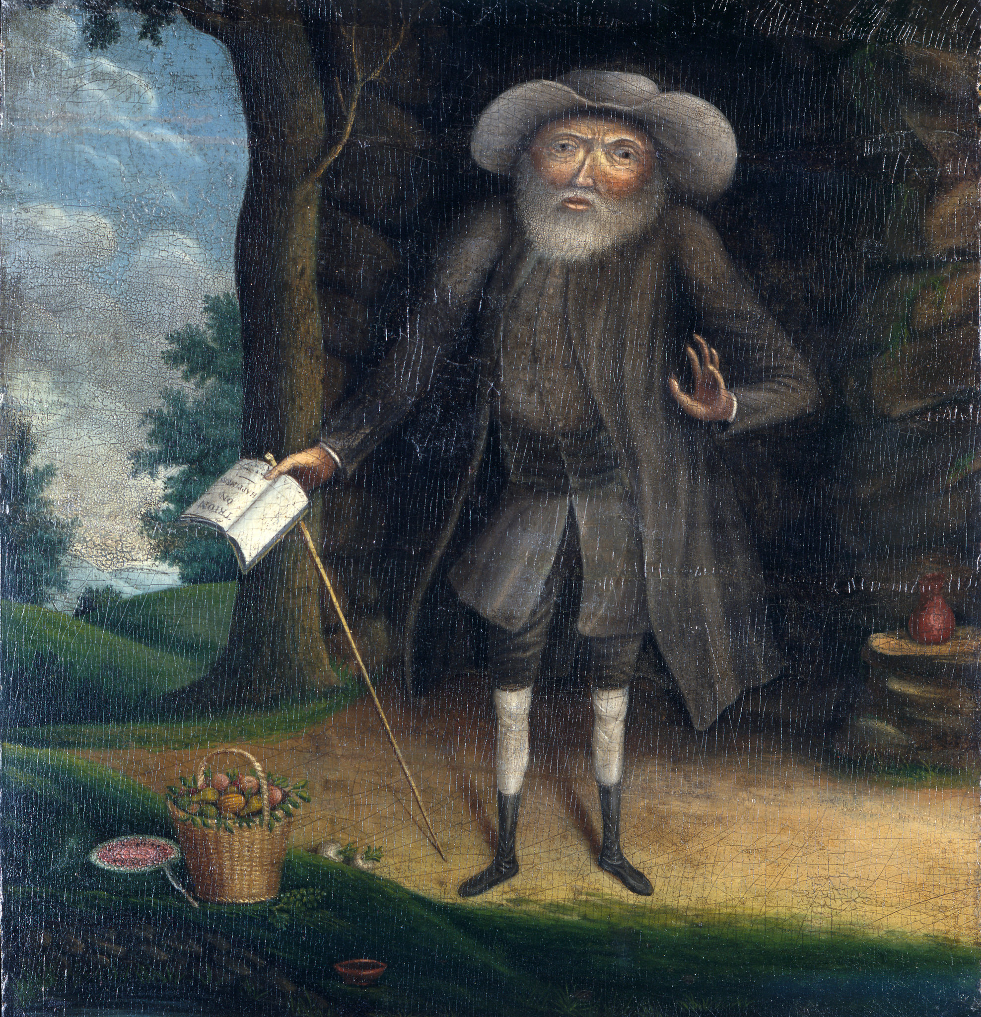 Benjamin Lay painted by William Williams in 1790. Image from National Portrait Gallery, Smithsonian Institution, via Art Resource, New York